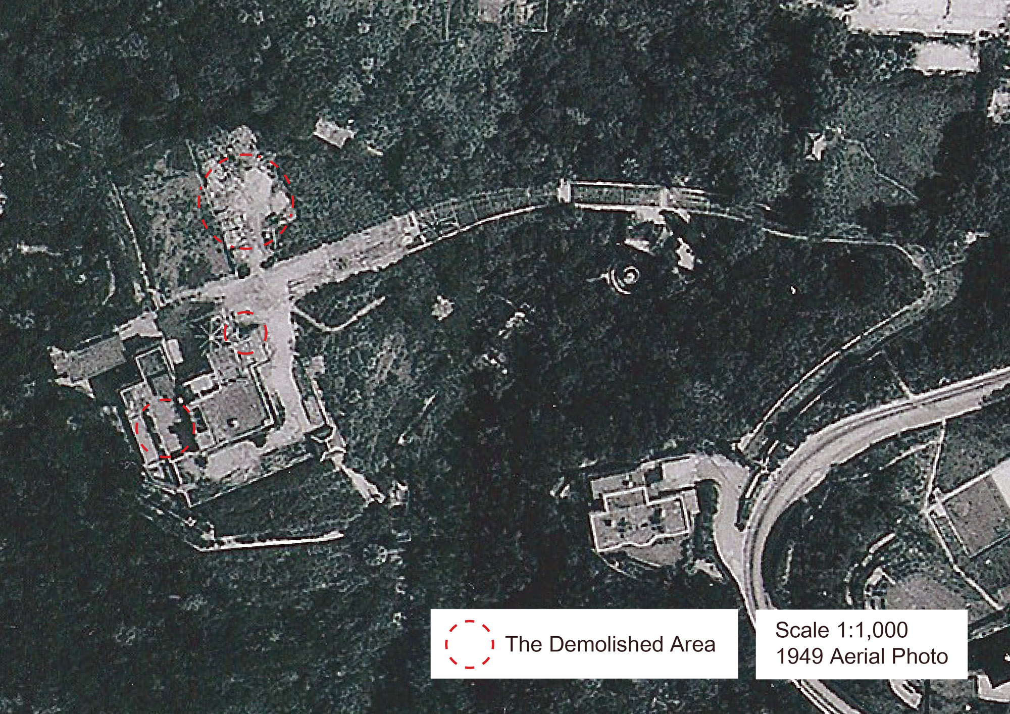 Aerial photograph showing the full site on public record, dated 1949. It shows severe war damage to the west and the north-eastern part of the mansion